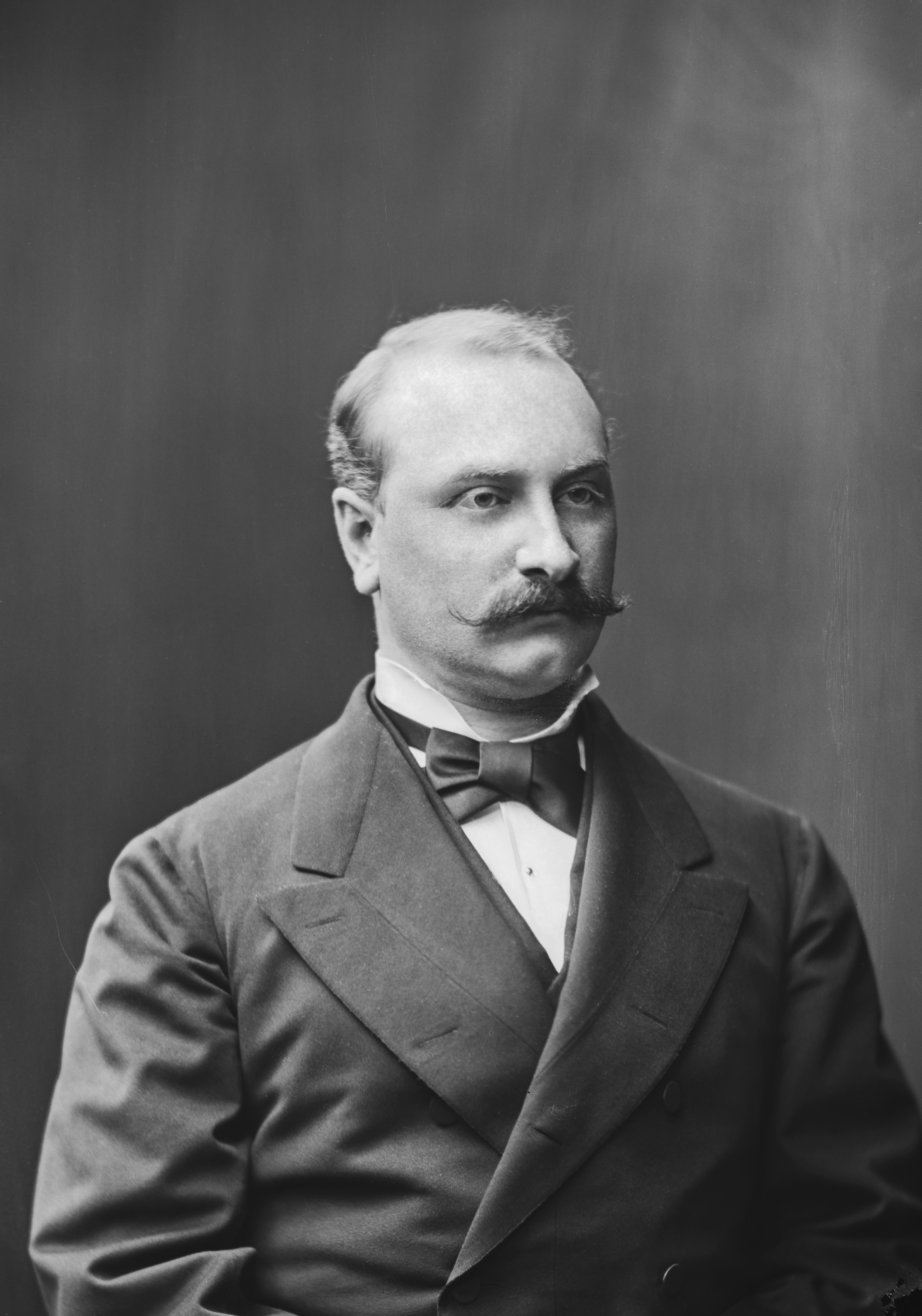 Photograph of the Finnish military officer (colonel) and senator Kasten Antell (1845–1906).